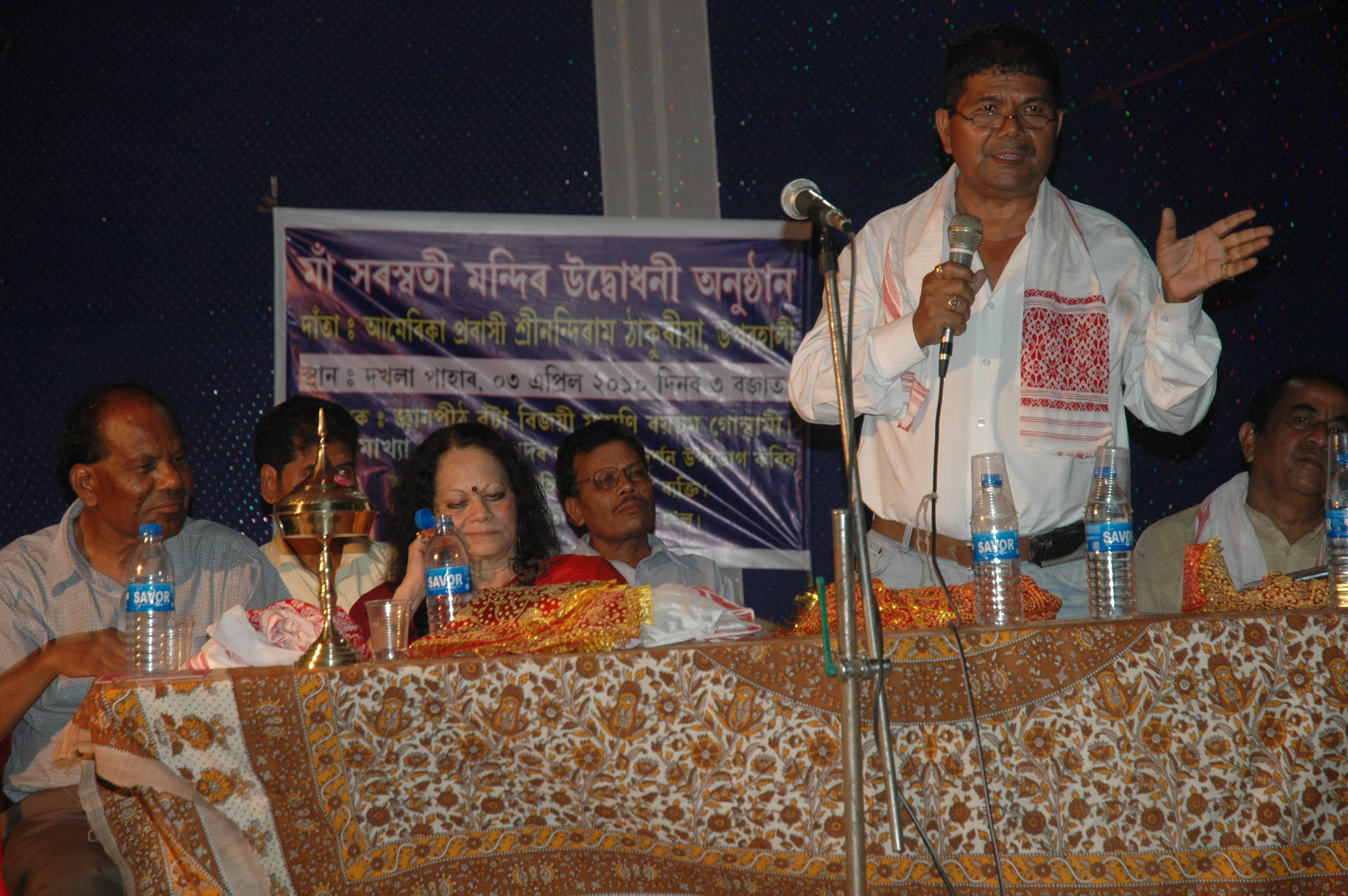 Mukti_chairman_Mr._Subodh_Talukdar with noted_writer_Jnanpith _DR._Mamoni_Raiysom_Goswami_and_Mukti_Chife_Patron_Nandiram_Thakuria_innaguration_a_2nd_India_Saraswati_temple_at_guwahati(Bijoy_Nagar).